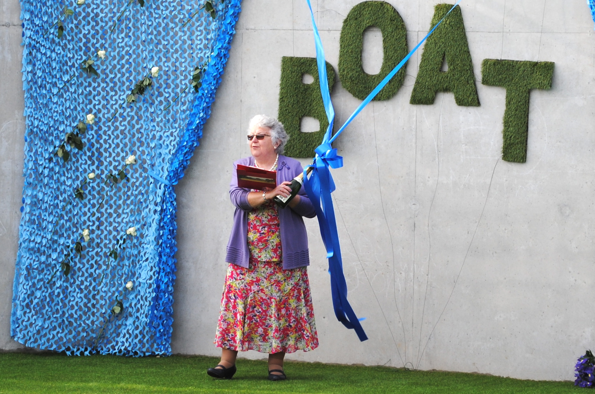 Isobelle Bunting formally launches the Brighton Open Air Theatre